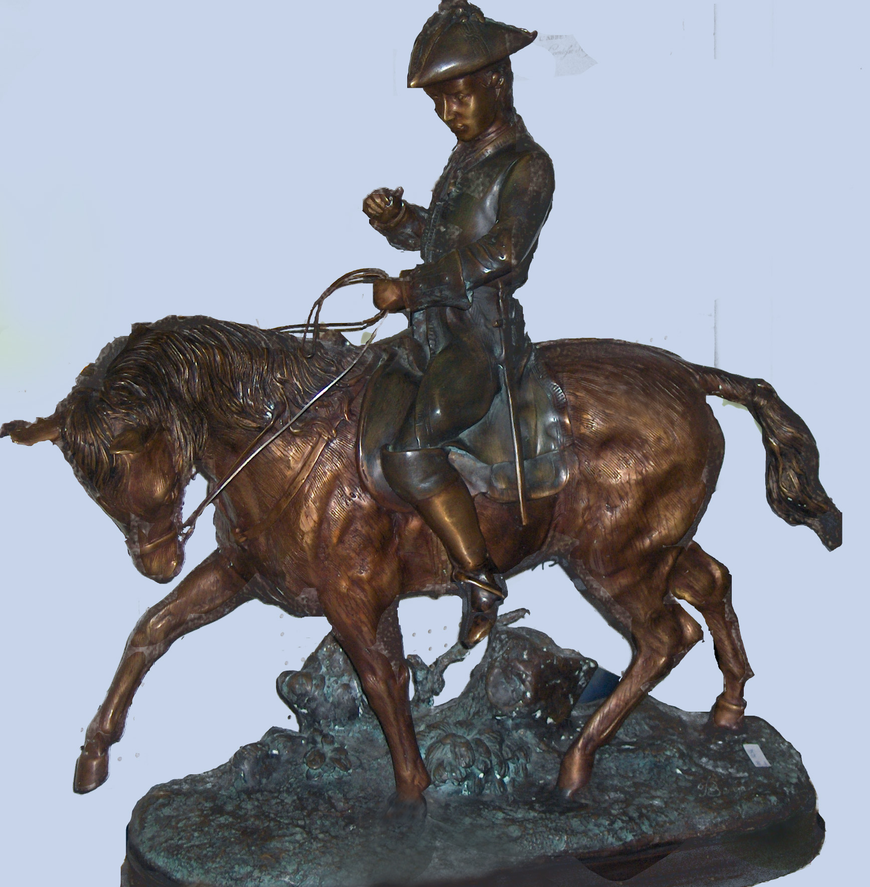 "American soldier on horseback", bronze statue by Edward Berge (1876-1924) (private collection)